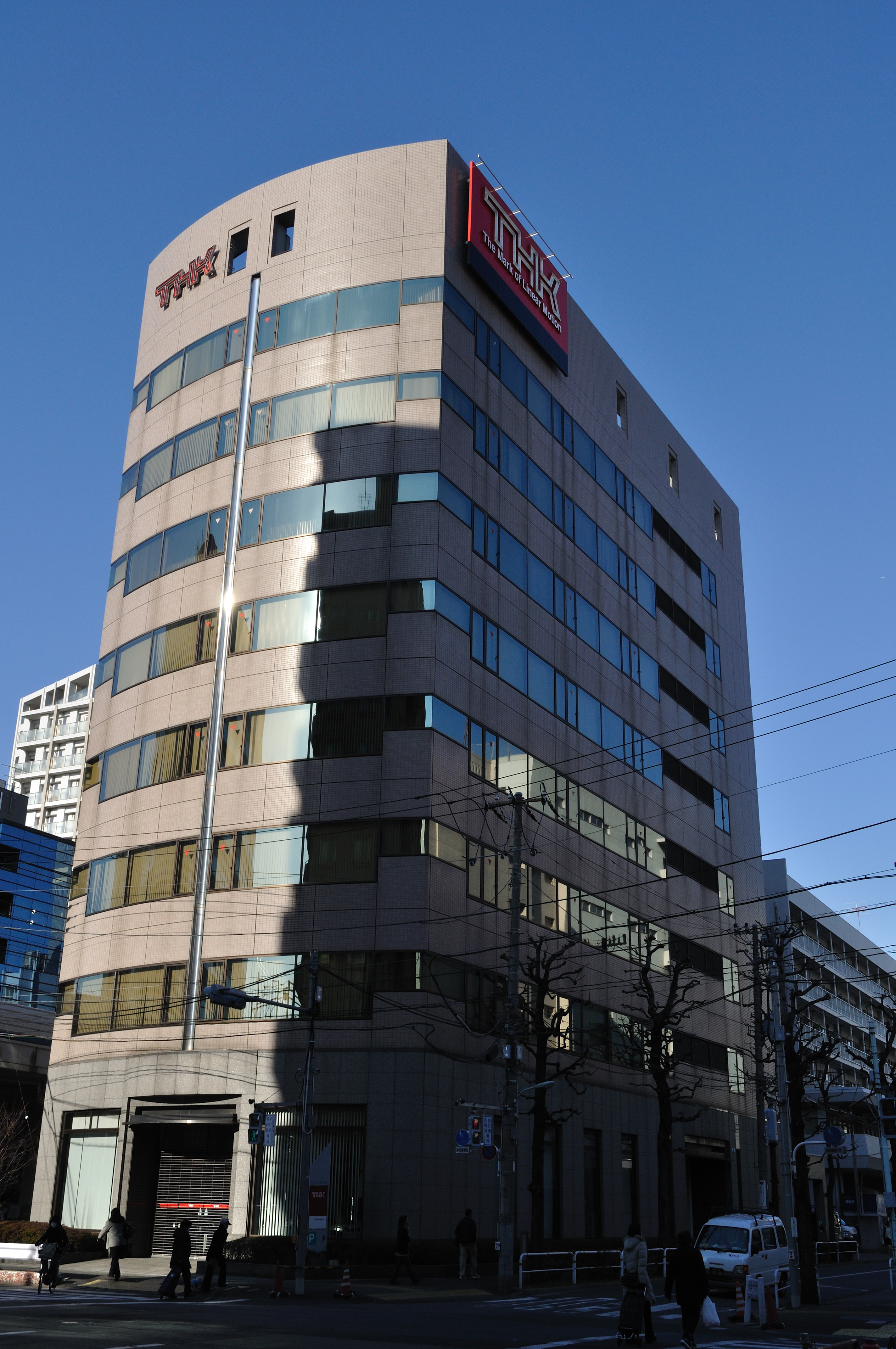 HQ Building of THK, a Japanese machinery maker at Shinagawa, Tokyo.